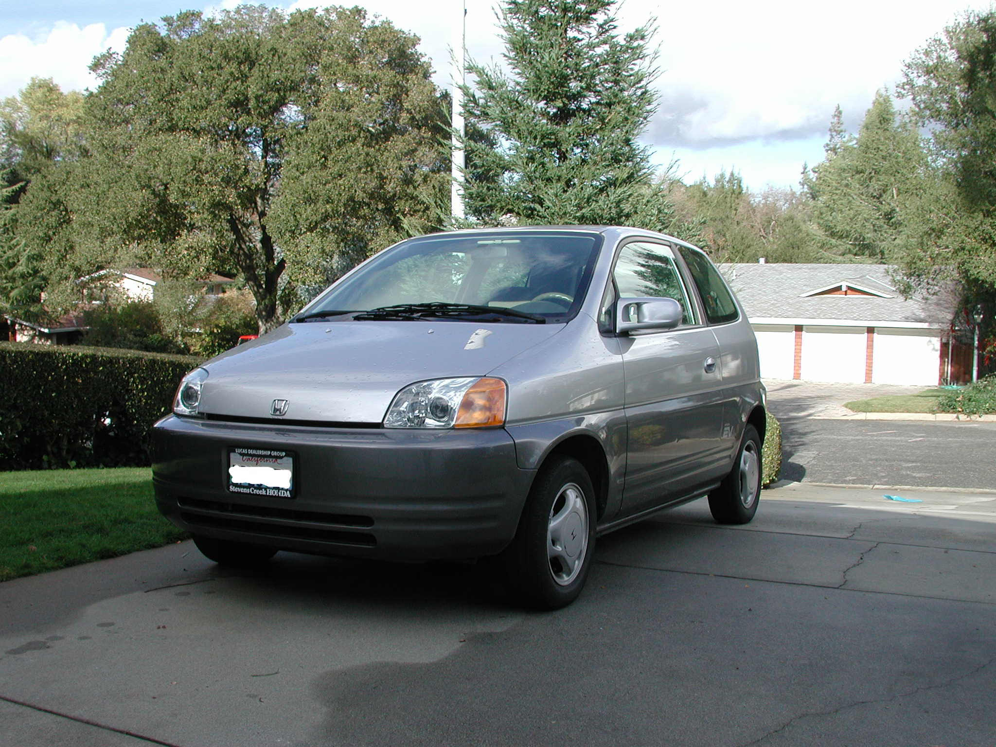 1997-1999 Honda EV Plus